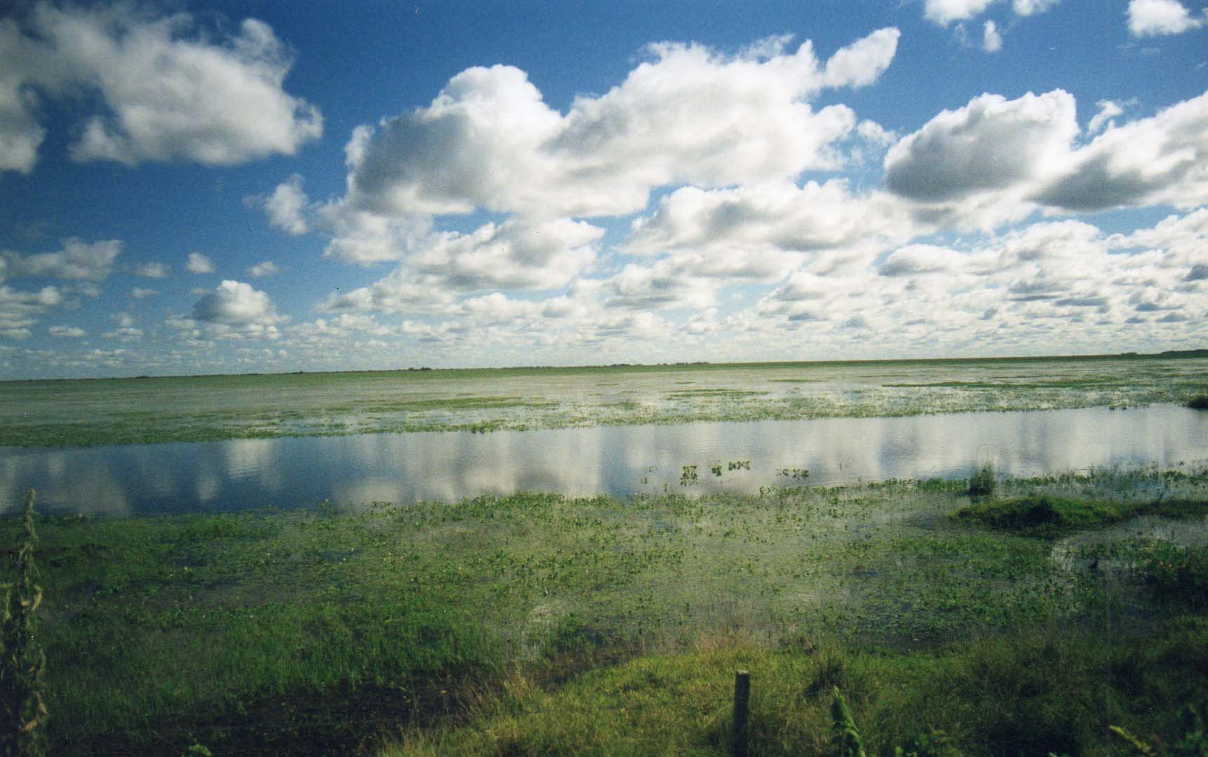 Wet season on Los Llanos Venezuela